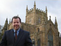 Jim Tolson